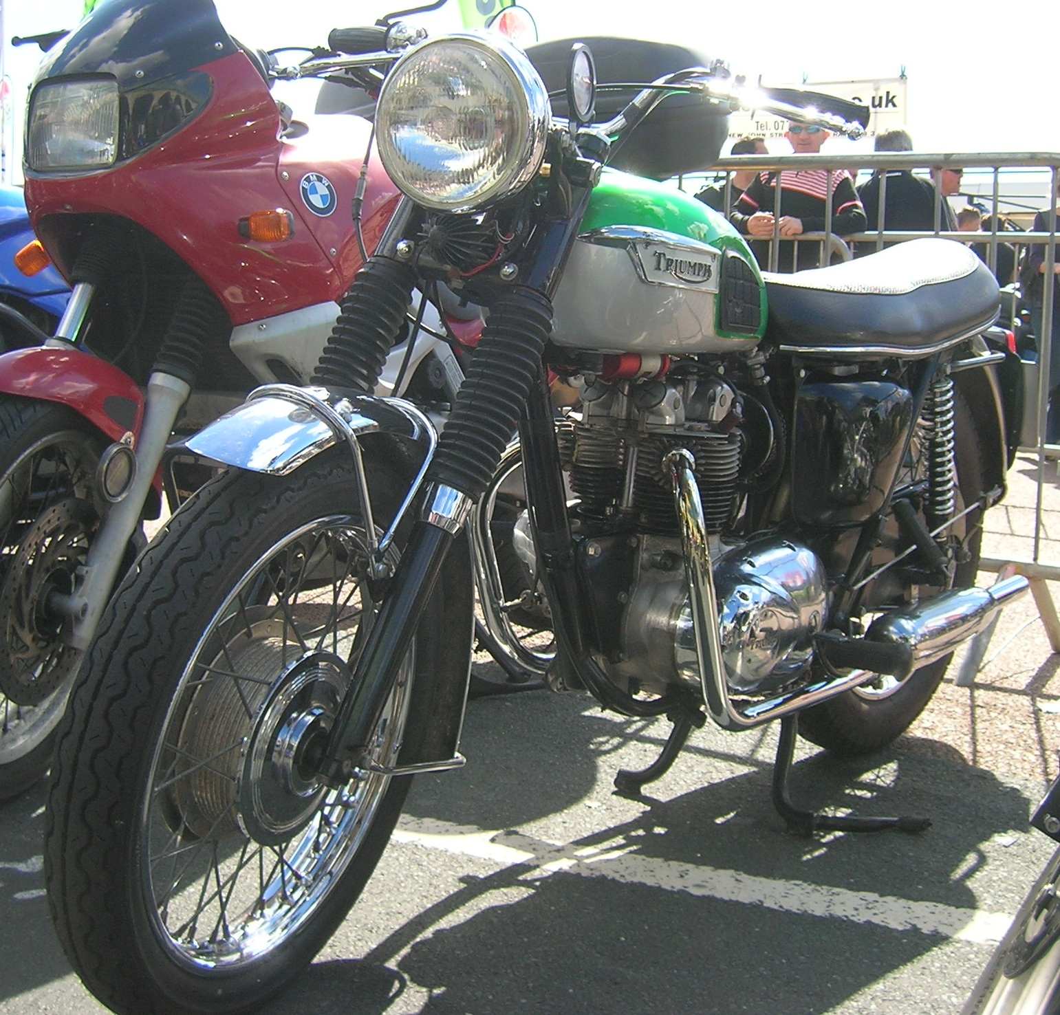 Late 1960's 500cc twin cylinder motorcycle made at the Meriden factory in the English West Midlands